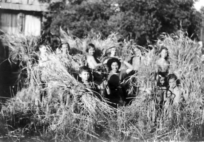 1940-3 Kibbutz Gan Shmuel - Children learn all about bread. They harvest wheat which they have sowen in their field.